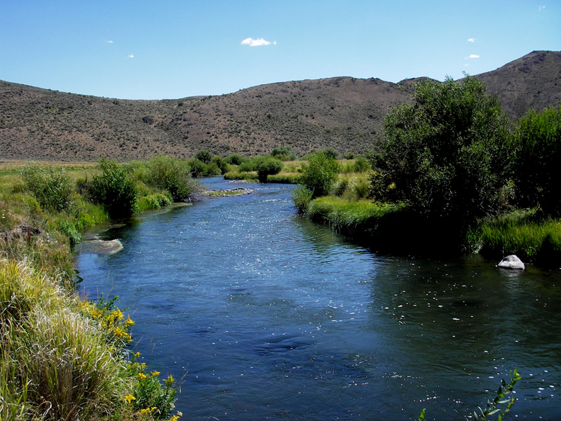 Owyhee River — "Owyhee River 6 Mi South Of Mountain City, NV - USGS site 414512115553300. Photo taken: August 2008." —USGS source page